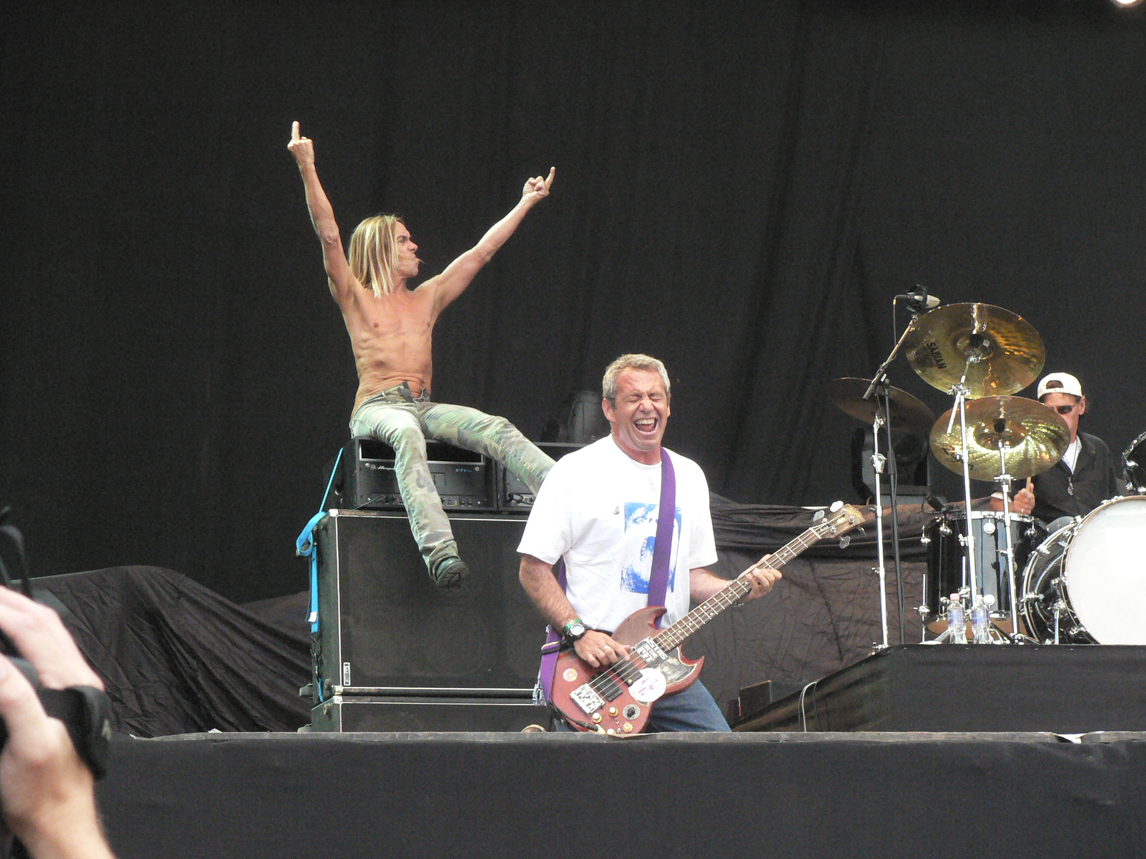 Live on the 15th of August, 2006. Budapest, Sziget Festival. Grand Stage. Iggy Pop (shirtless), Mike Watt (bass guitar), Scott Asheton (drums).